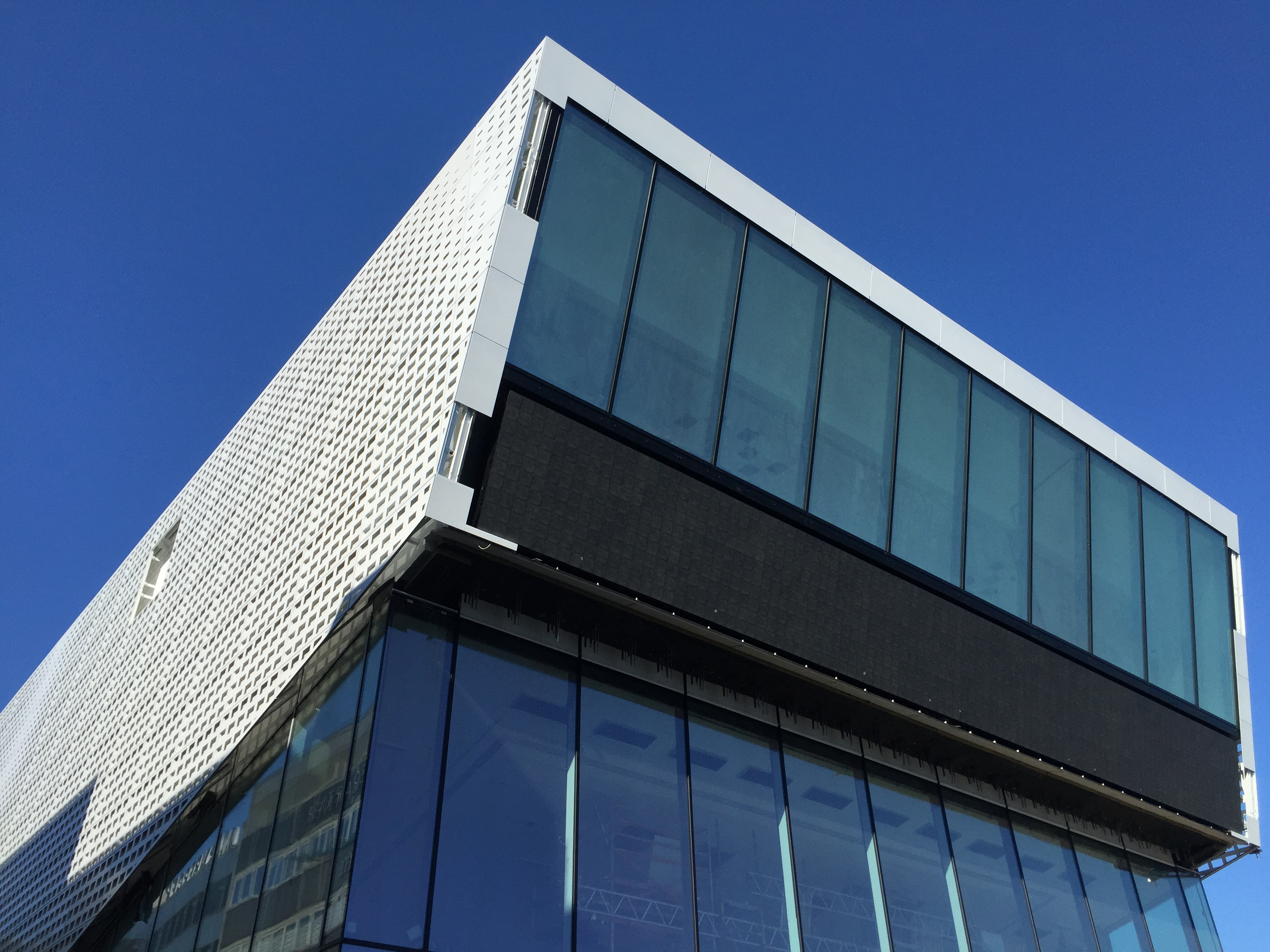 Architecture of the German Football Museum